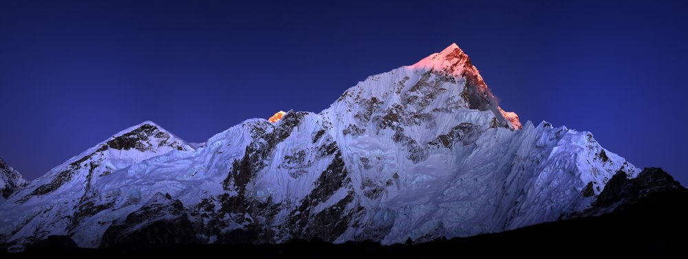 NUPTSE from gorakshep